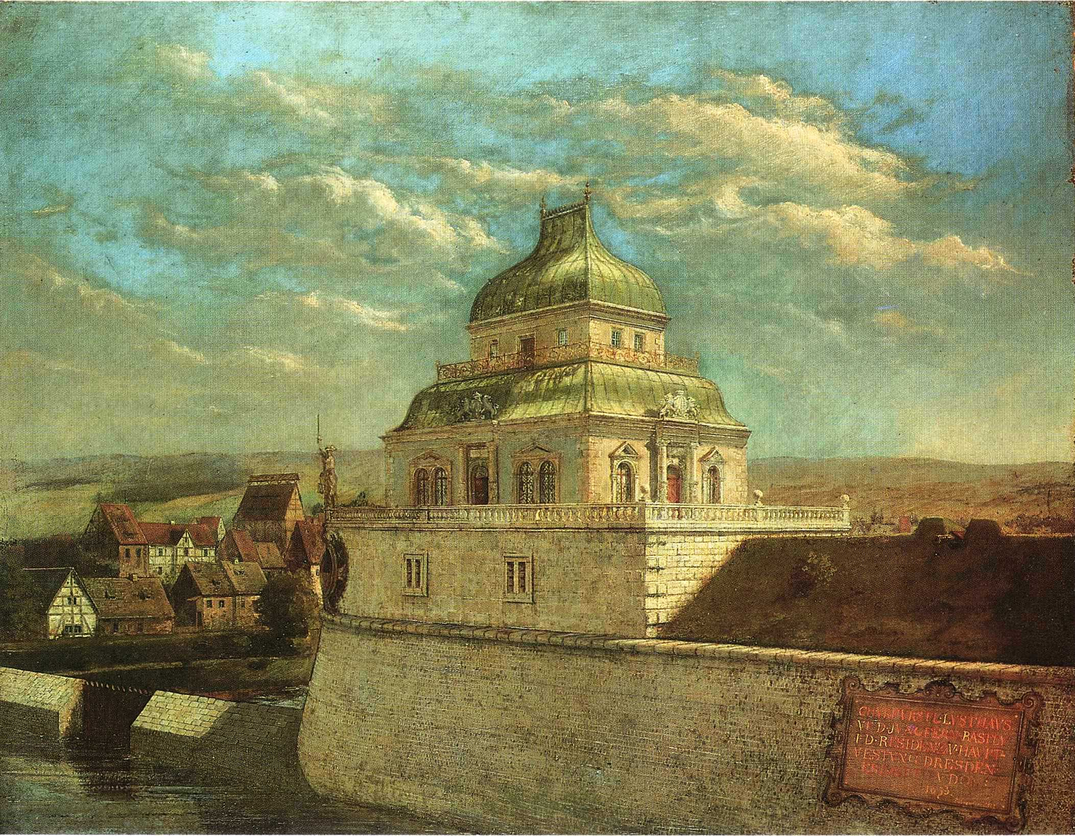 Erstes Belvedere Dresden